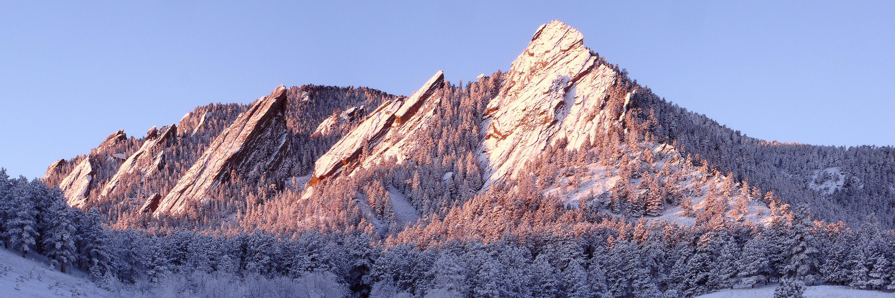 Boulder's iconic rock formations, the Flatirons, near Boulder, Colorado. Panorama assembled from 3 images.